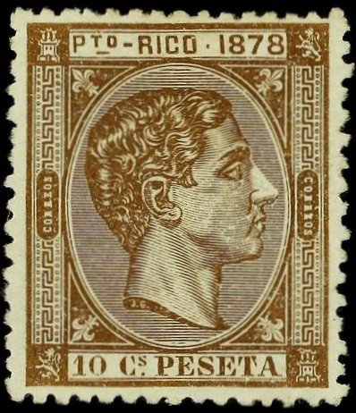 1878 postage stamp of Puerto Rico depicting King Alfonso XII. Denomination is 10 céntimos de peseta.